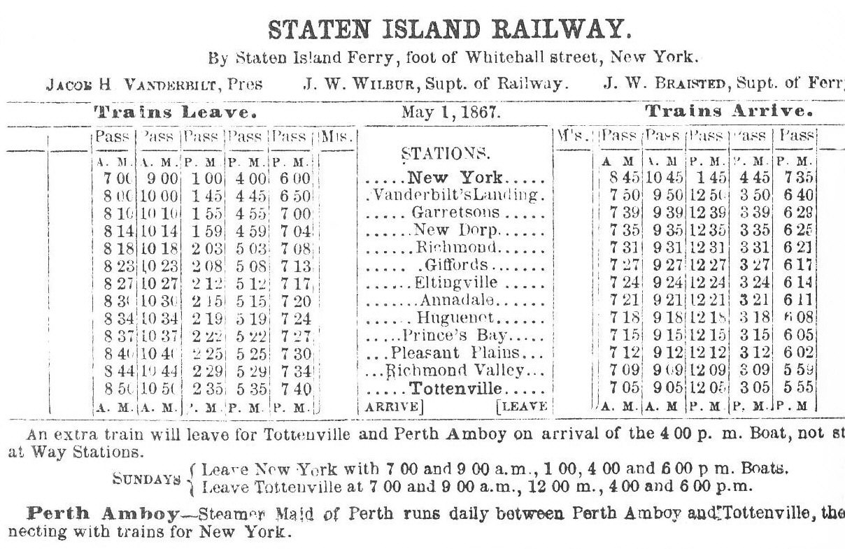 Staten Island Railway timetable, May 1867 (Table #89)